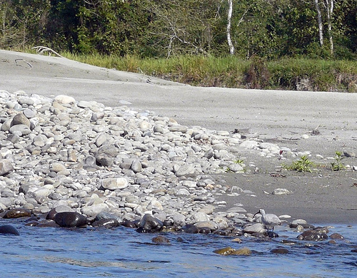 Ibisbill. Nameri NP, Assam, India